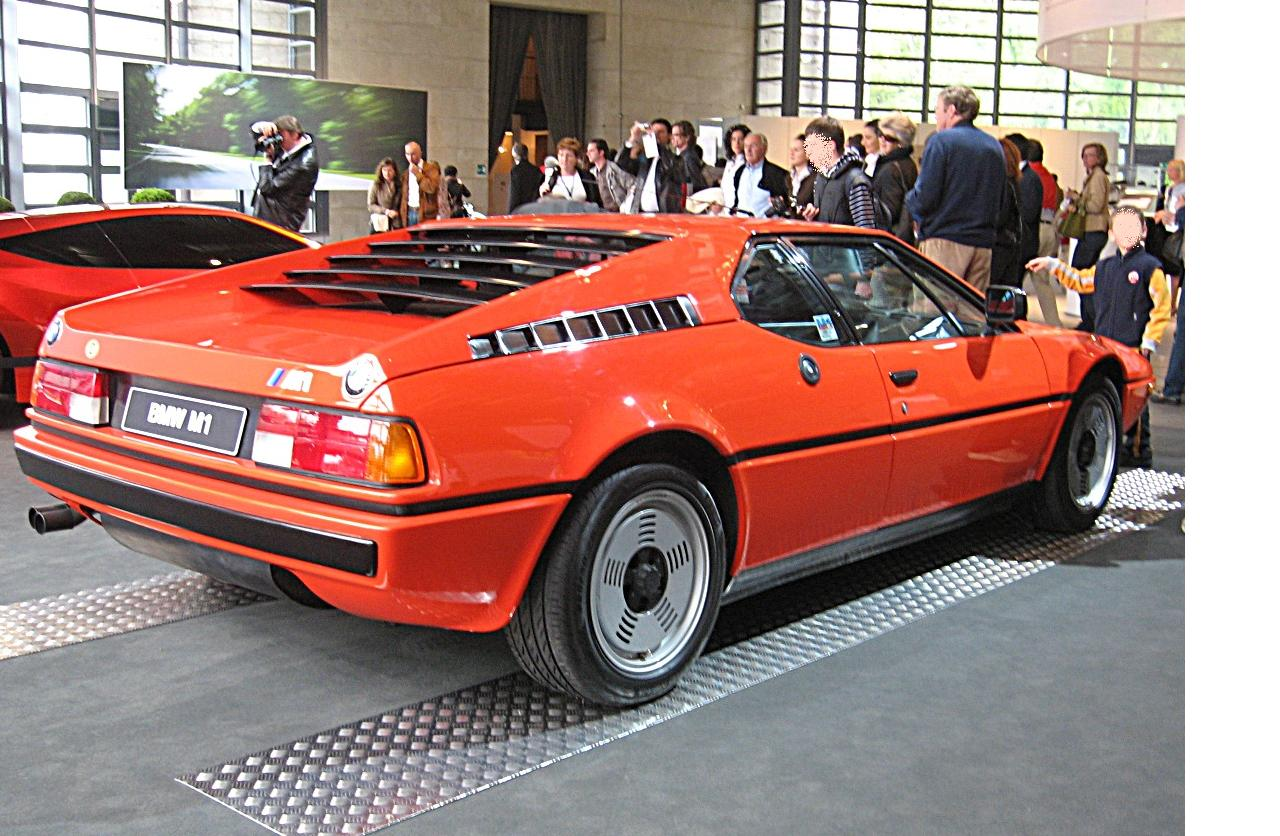 Subject: BMW M1 Author:Luc106 Date:April 27th, 2008 Event:Concorso d’Eleganza”Villa d’Este” 2008 Place/Country: Cernobbio (CO), Italy I release all rights in the public domain.